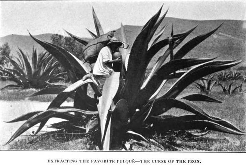 This picture is from the book of Elizabeth Visere McGary "An American Girl in Mexico" Published by Dodd, Mead and Company, 1904 New York. The book an the images are Public Domain because its copyright has expired after 100 years. In this book the author depicts her impressions of a trip around Mexico, specially around Monterrey. She stays a few days in Saltillo, a week in San Luis Potosí and three months in Mexico City. The pulque is an alcoholic native beverage extracted from agave or Maguey.